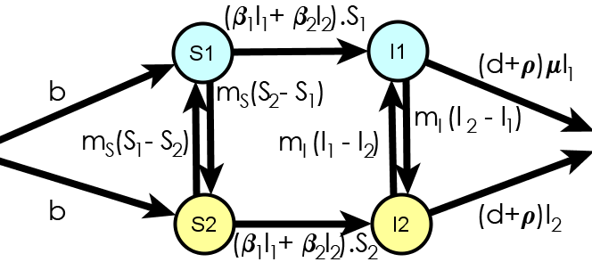 Epidemiological model with two interacting groups and migrations.